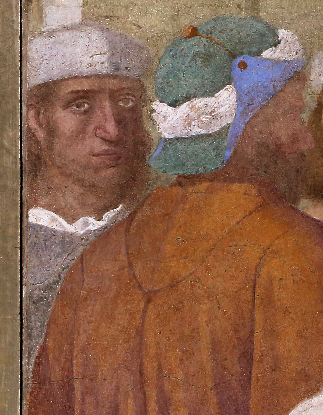 Marriage of the Virgin by Franciabigio